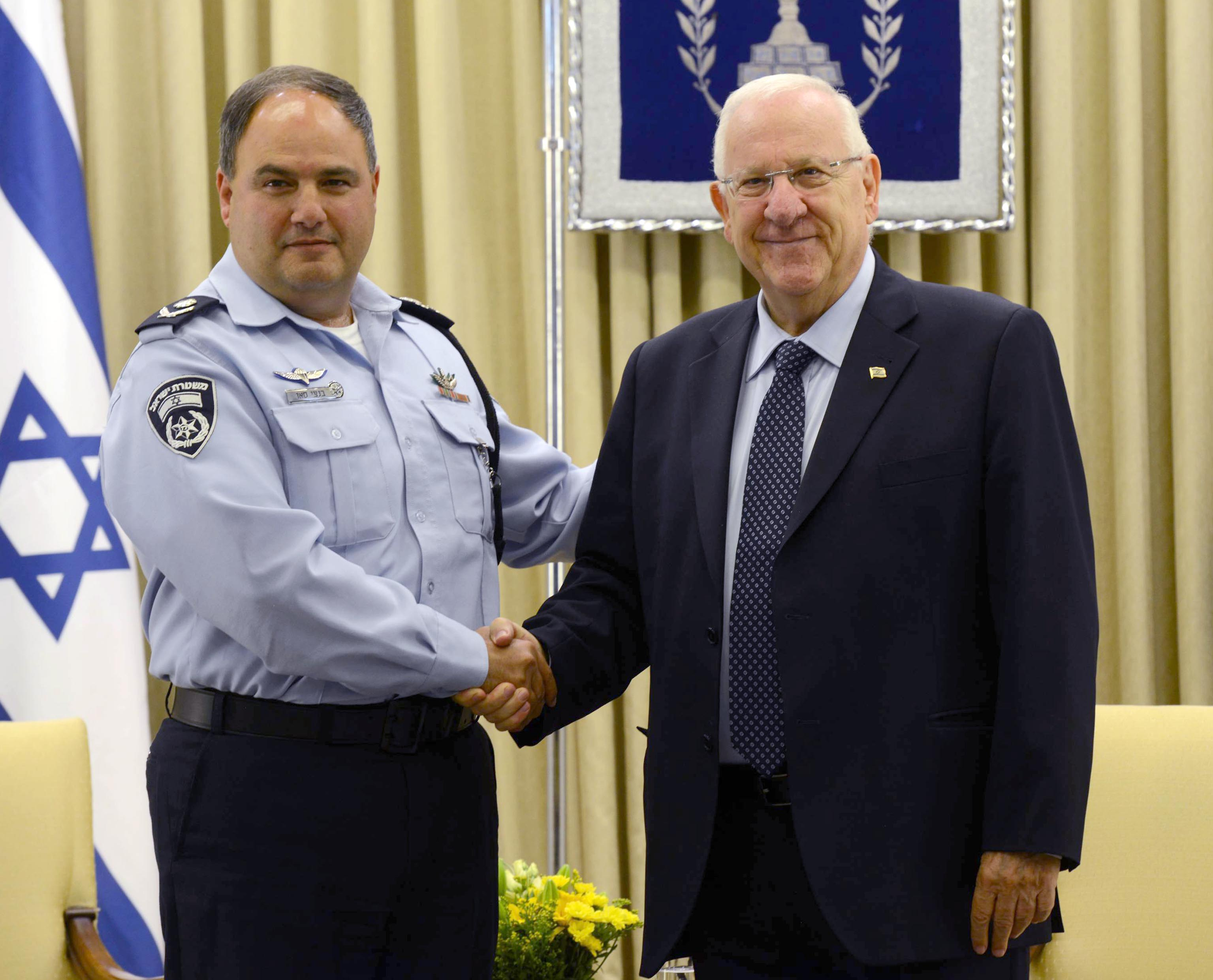 Reuven Rivlin hosted, in the president’s residence, the high command staff of the Israeli police. Monday, July 13, 2015. Photo credit: Mark Neiman / GPO.